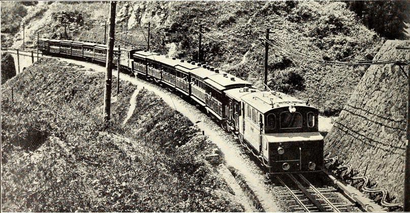 A train on the Usui Toge section of the Shinetsu Main Line in Japan with rack and pinion electric locomotives at the front and in the center of the train